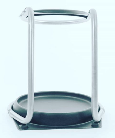 The Wizdish ROVR2